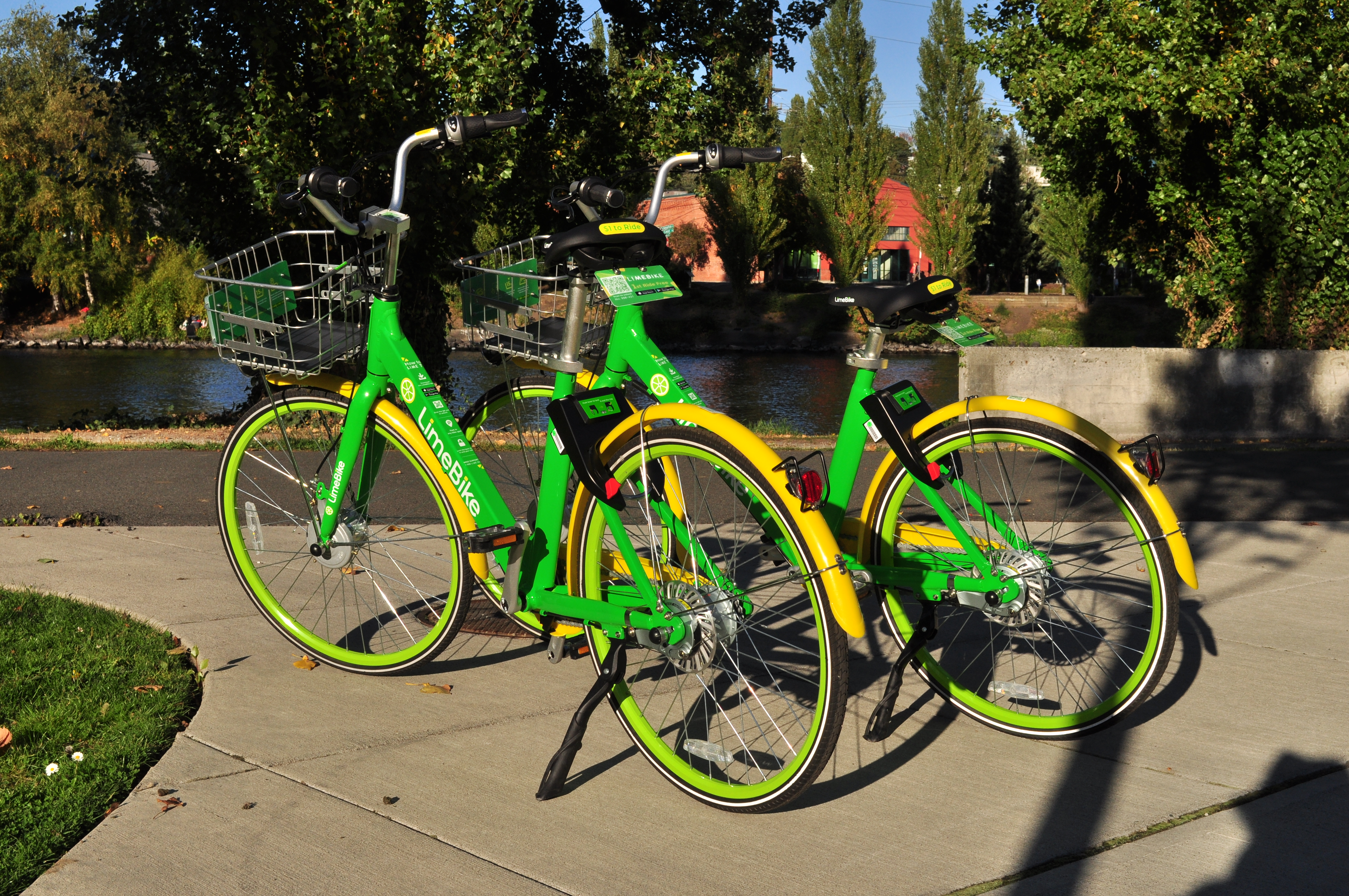 Lime Bike cycle share bikes, Seattle, Washington, U.S., 2017. South side of Fremont Cut.